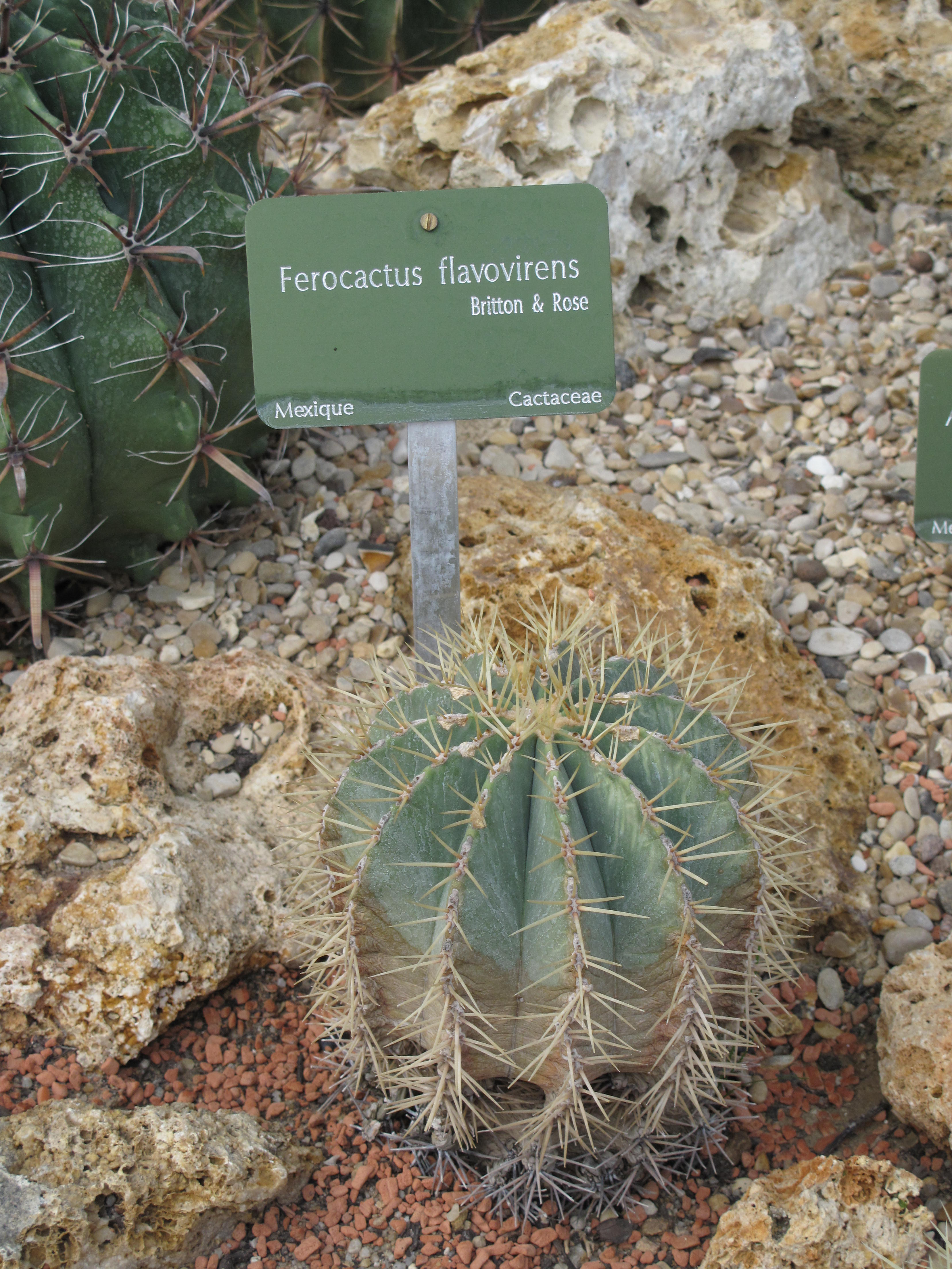 Ferocactus flavovirens in a greenhouse of the Jardin des Plantes in Paris.